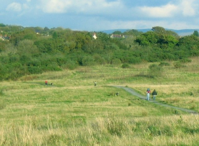 Grassland Path at Mynydd Mawr Woodland Park. This is the view northeast down a path that leads from the main circuit to the carpark at the northern entrance.